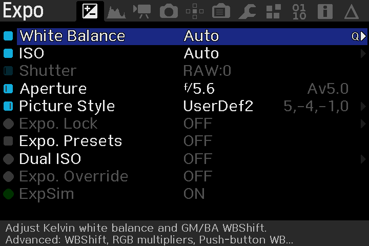 Screenshot of the exposure settings tab using Magic Lantern on a Canon EOS 6D.